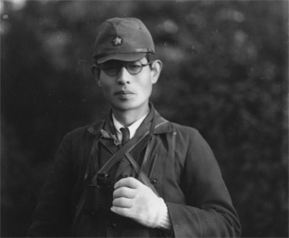 Kōyō Ishikawa